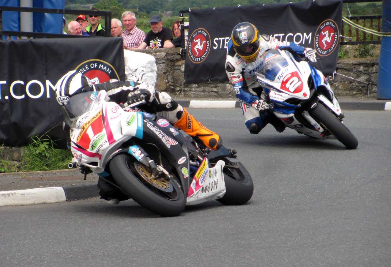 Description : 2012 Southern 100 Races Races Date : 12th July 2012 Source : Agljones at en.wikipedia Permission See below